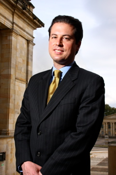 Senator Juan Manuel Galan